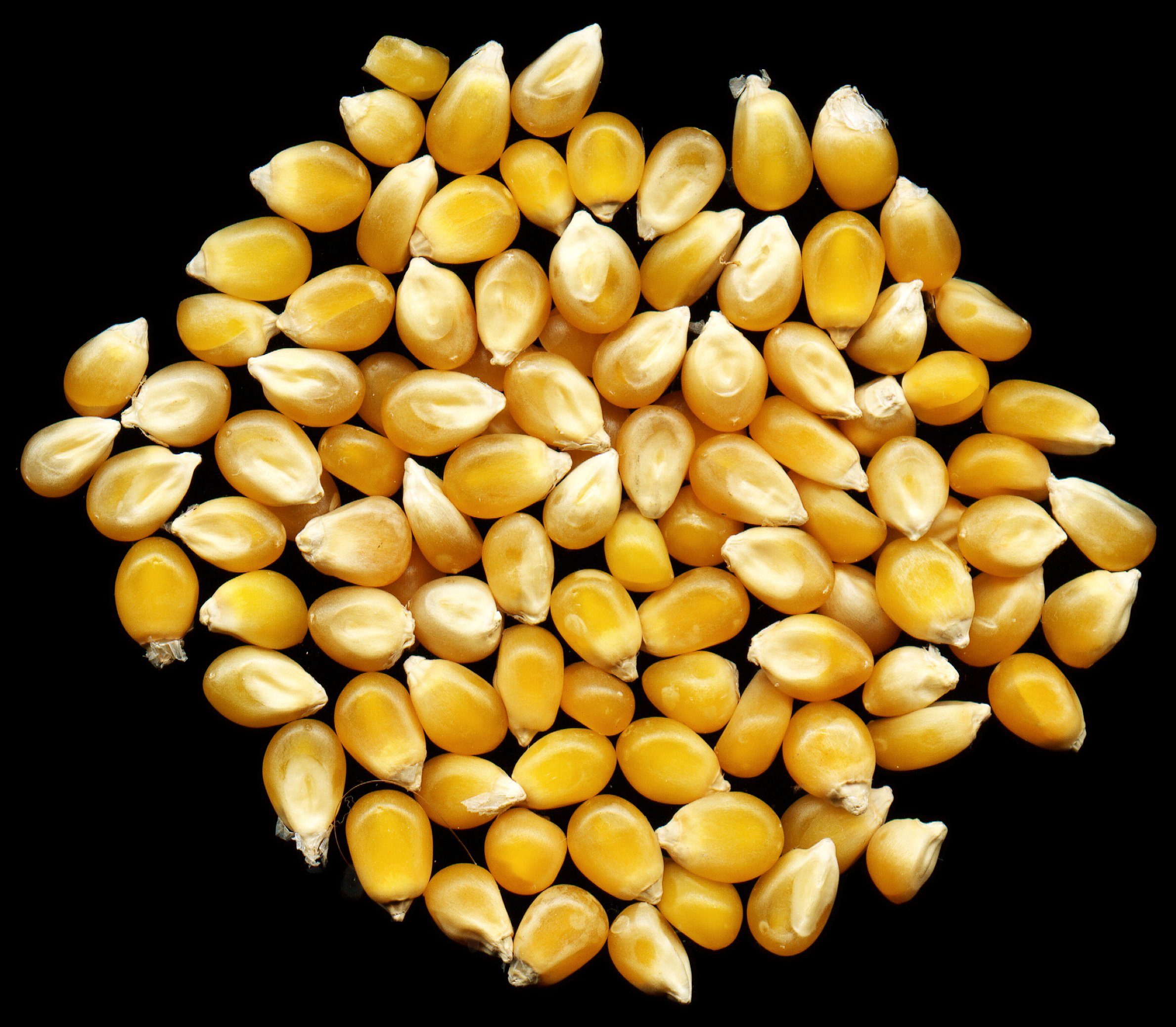 Maize/corn kernels